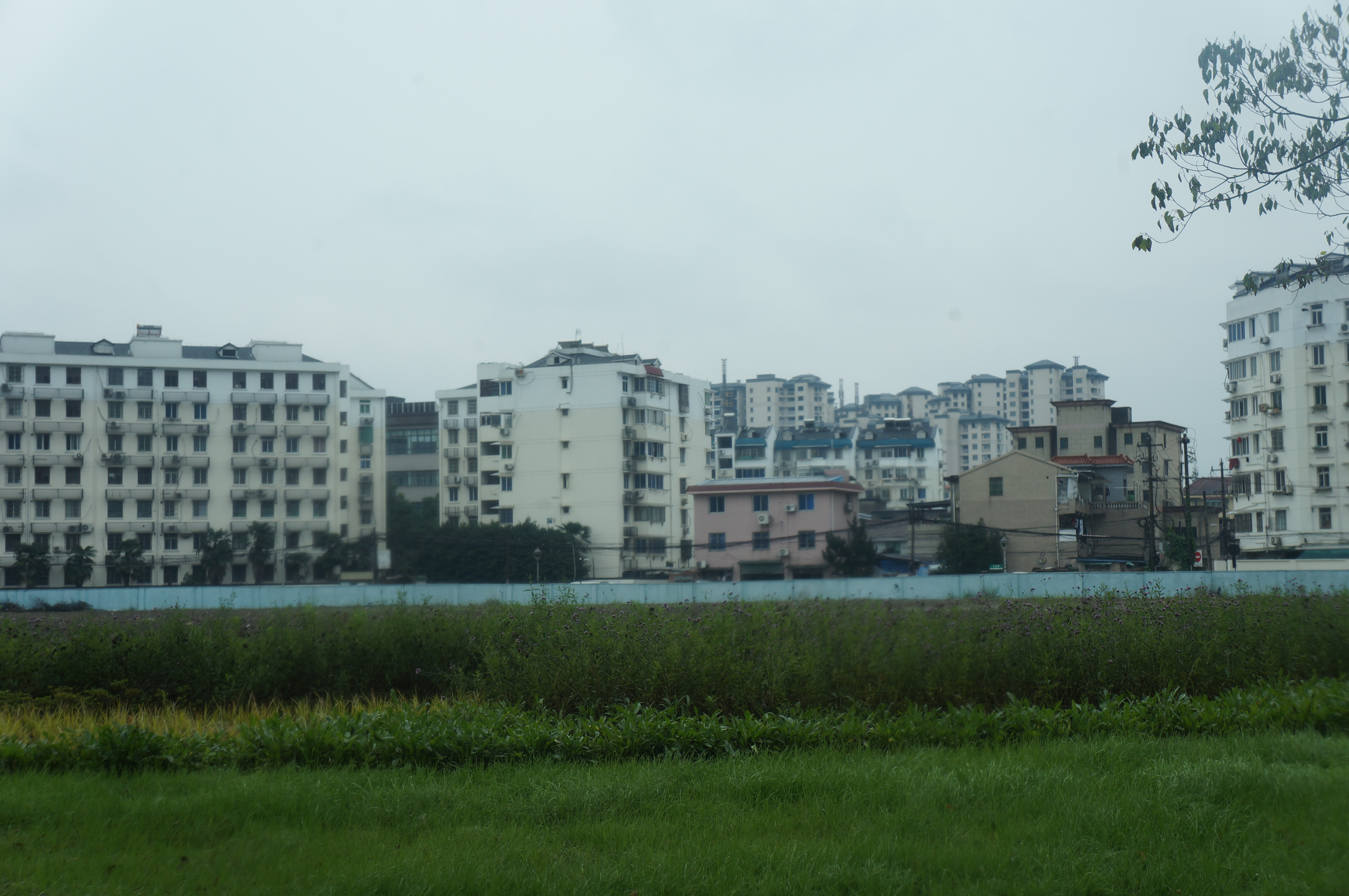 201611 Buildings in Daguan, the grass field in front of the buildings might used to be a market before G20 Summit